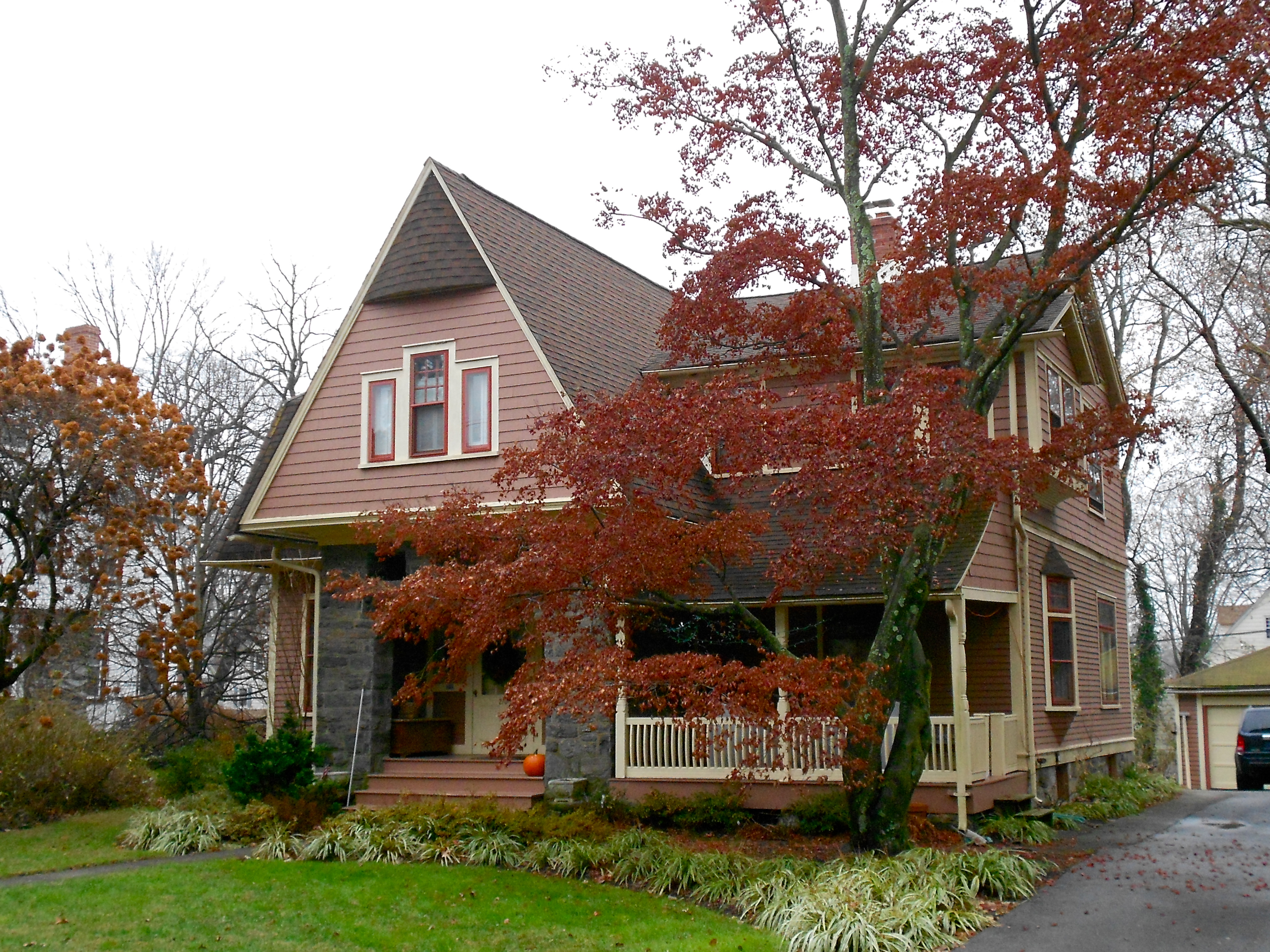 House in North Wayne Historic District in Delaware County, Pennsylvania. The district has been on the NRHP since 1985. This house, known as "Cozy Nook" was designed by Will Price.